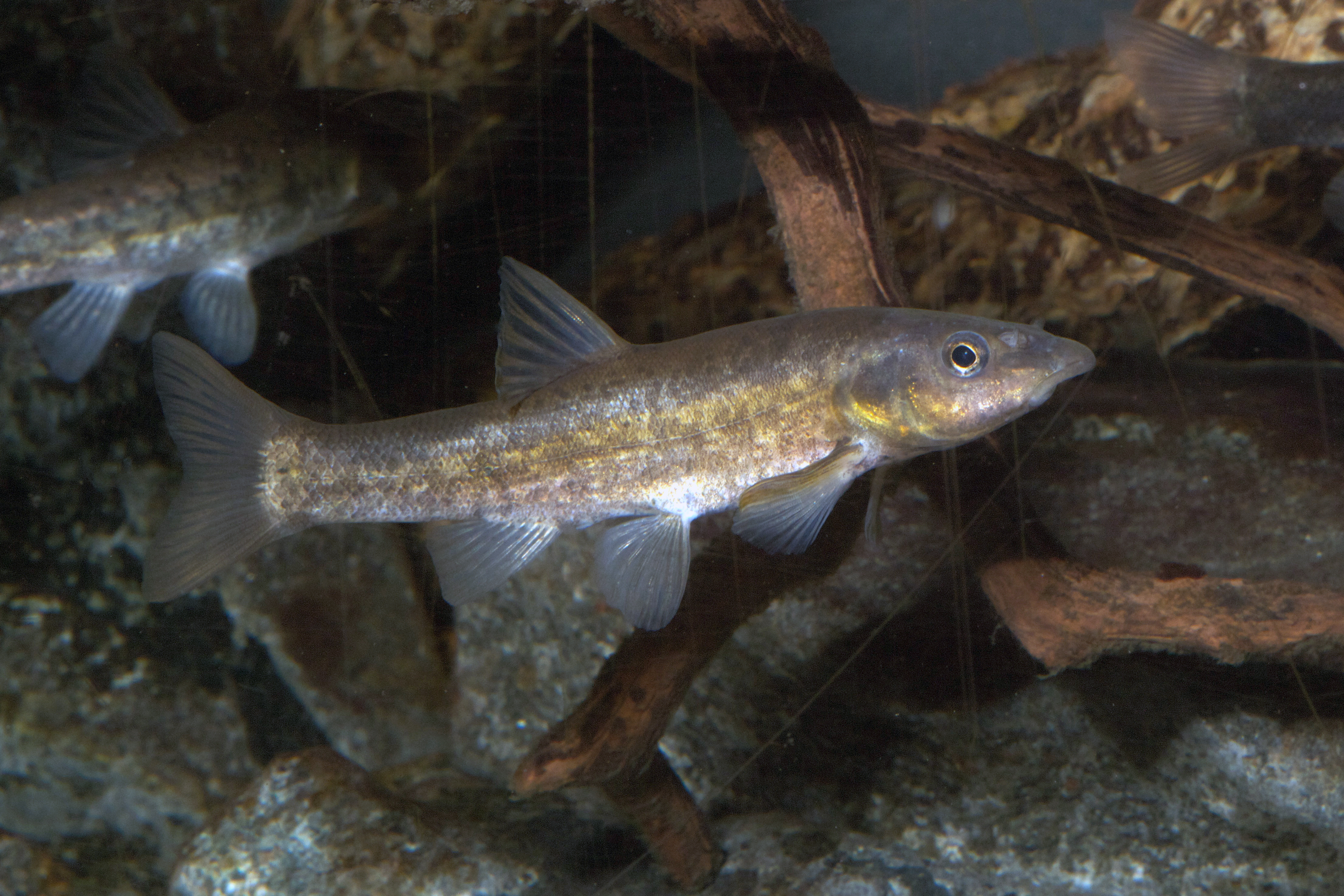 The speckled dace (Rhinichthys osculus Girard, 1856), also known as the spotted dace and the carpita pinta, is a member of the minnow family. It is found in temperate freshwater in North America, from Sonora to British Columbia.